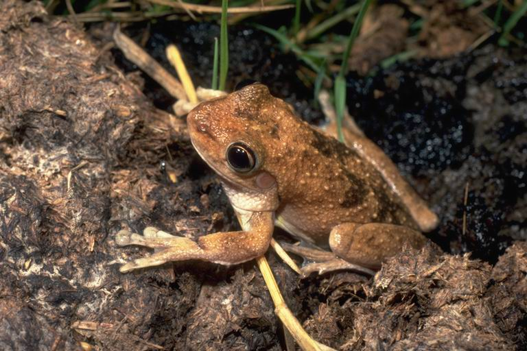 Litoria rothii